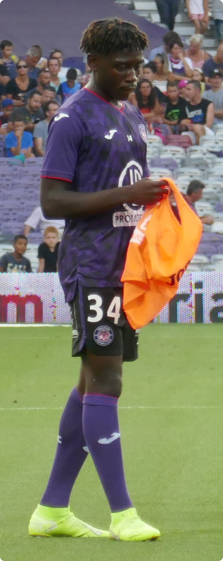 Kouadio Manu Koné warming up on August 31, 2019 at the Toulouse Stadium. 4th day of the season 2019-2020 of Ligue 1, Toulouse FC - Amiens SC.